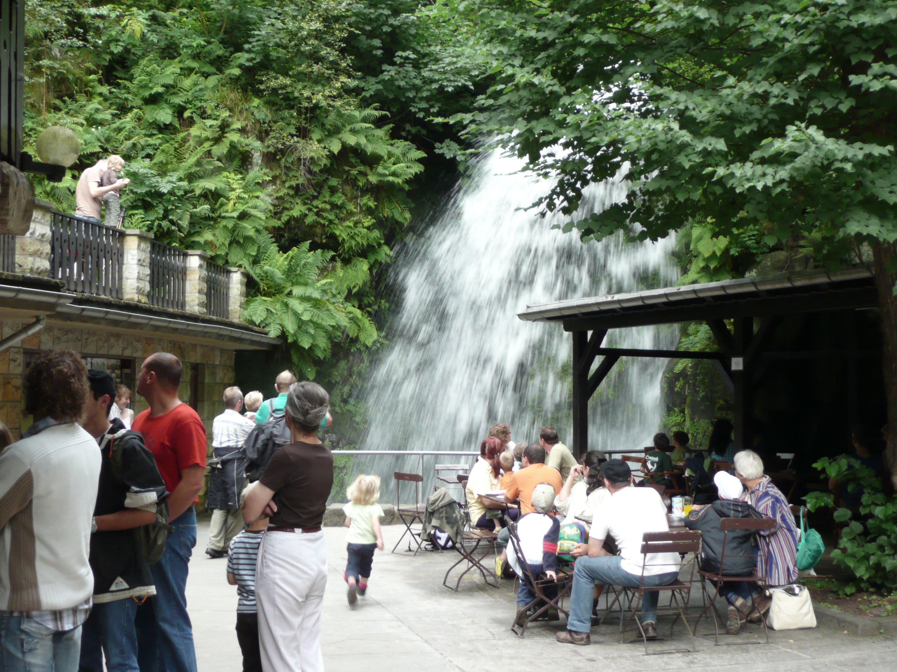 This image shows the Amselfall, a waterfall in the Saxon Switzerland.